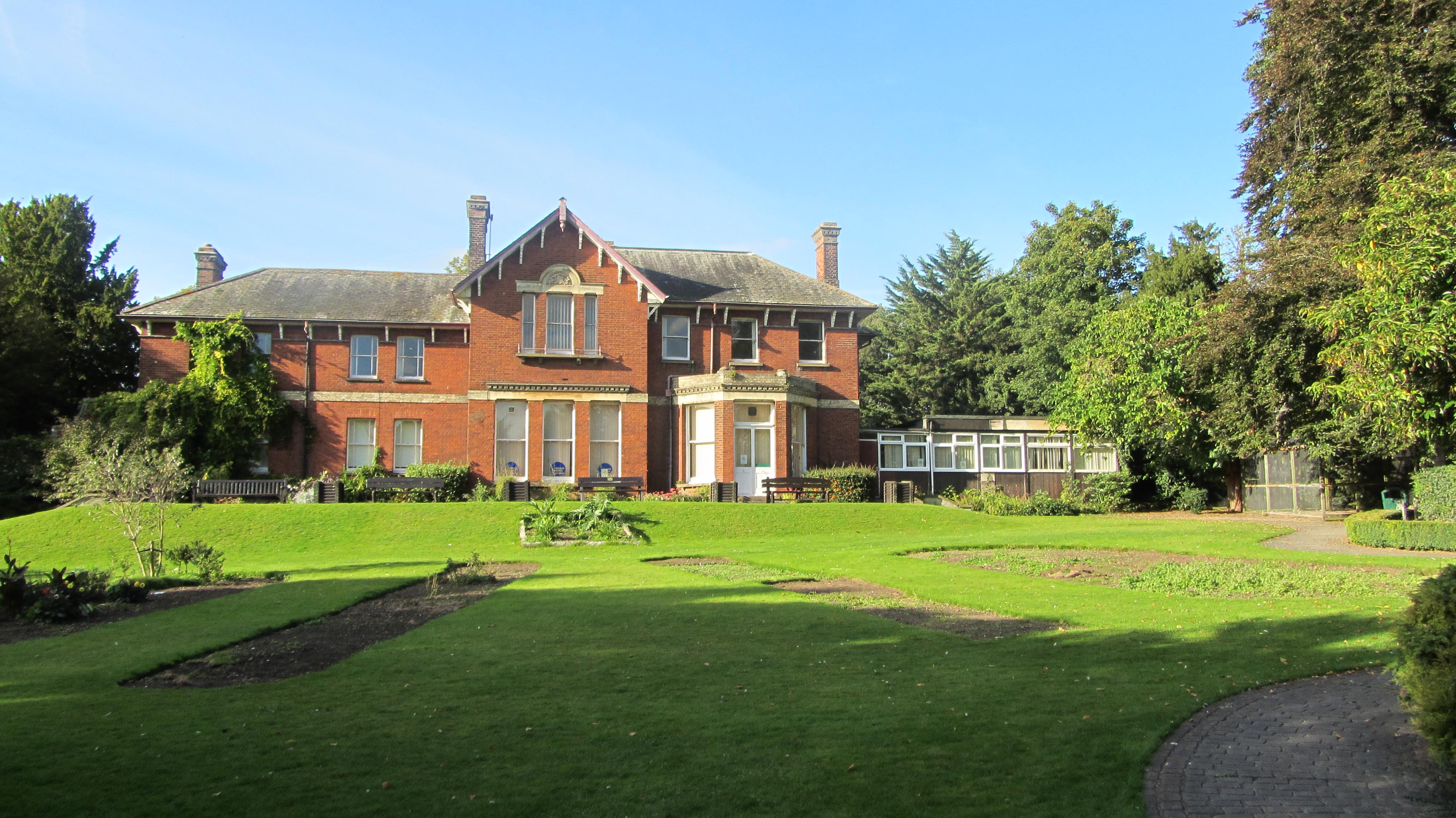 Belle Vue House, Sudbury, Suffolk designed by Spalding & Knight built 1840